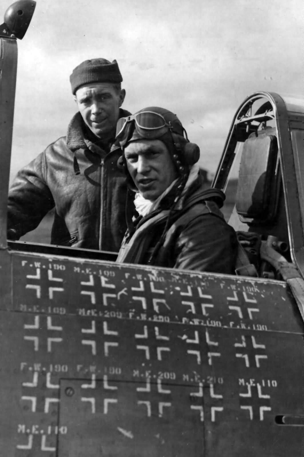 Caption Robert S. Johnson of Lawton, Oklahoma, being greeted by his crew chief, Staff Sergeant Ernest D. Gould of Vancouver, Washington, after Johnson's return from a three-kill mission. Only part of his victories are reflected in those painted on the aircraft as the remainder of his kills were then pending confirmation. Photo received from War Department Bureau of Public Relations, 21 March 1944.